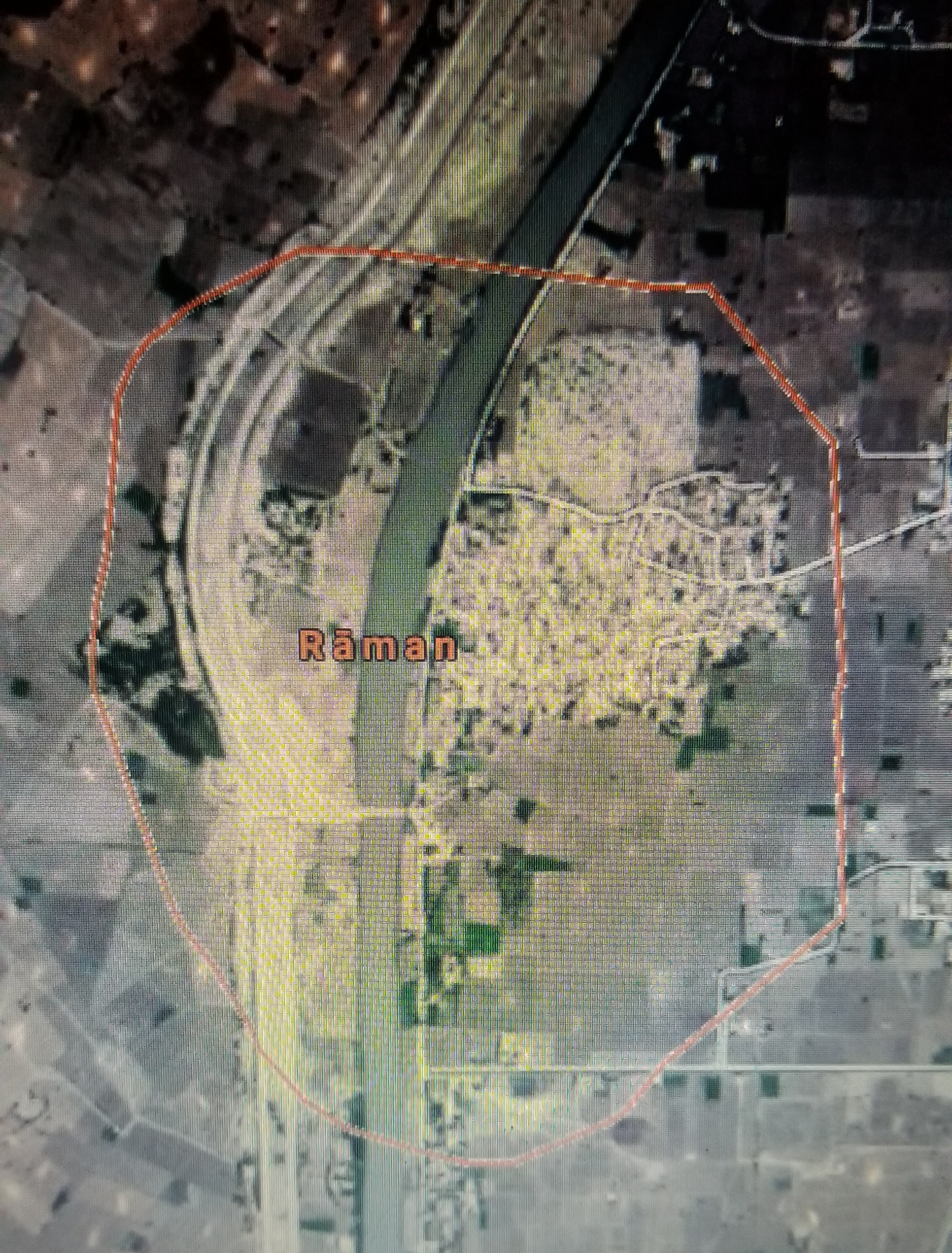 View from upside